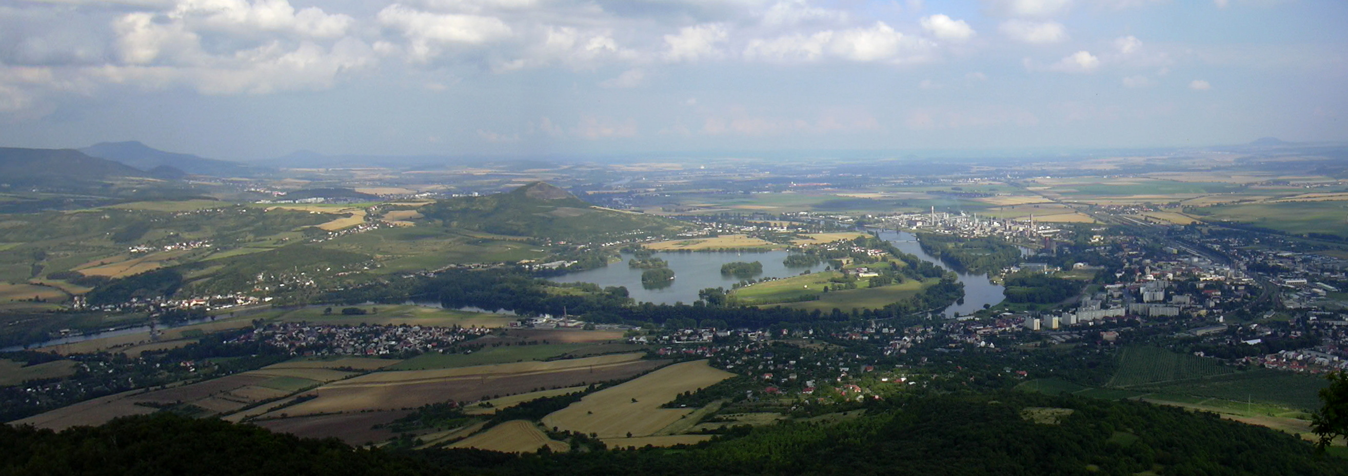 Žernoseky Lake from the Lovoš Hill